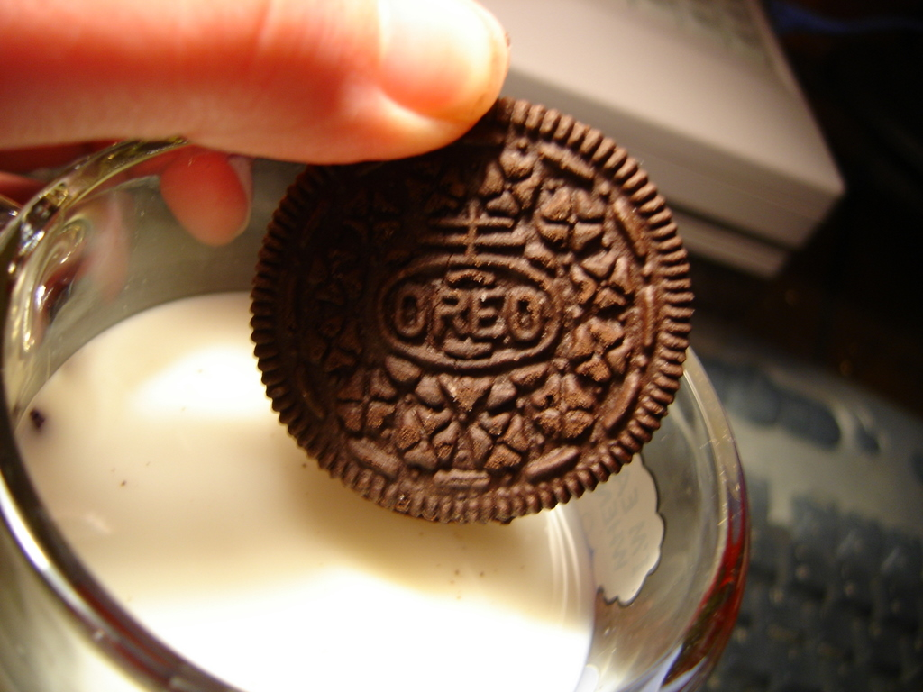 Dunking an oreo cookie.